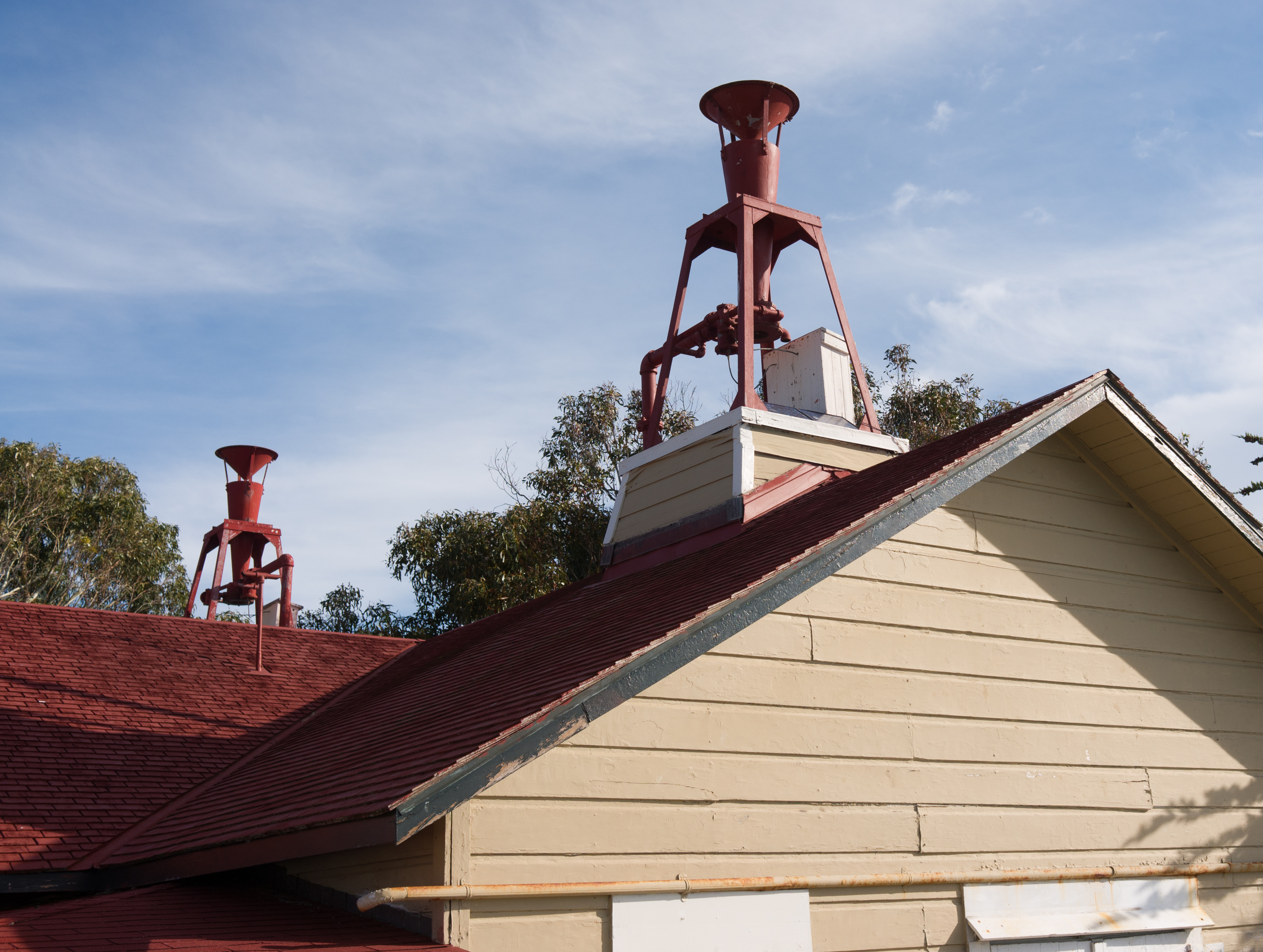 East Brother Light, diaphones on top of the foghorn building.